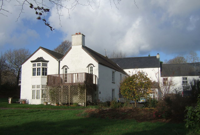 Johnston Hall A gentry mansion that dates back several centuries. The property included a farm, servants' quarters and its own chapel.